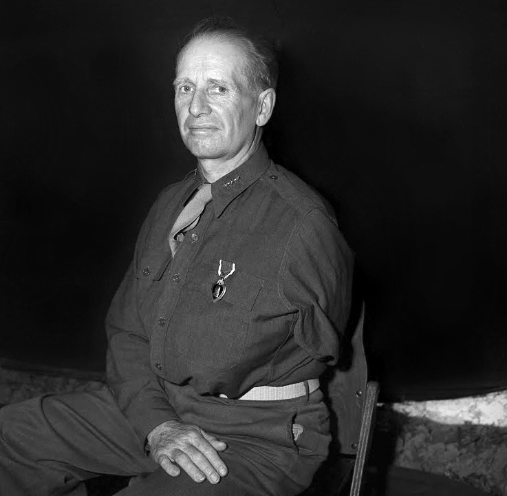 Lieutenant General Lesley J. McNair after being awarded the Purple Heart in Tunisia. Edited to remove faded second image of Purple Heart medal.